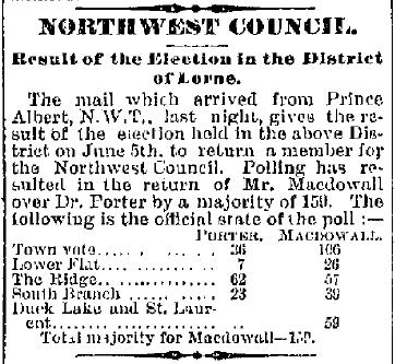 A clip showing the official election results, poll by poll from the 1883 district of Lorne election. The results were published in the Daily Free Press news paper June 20, 1883.